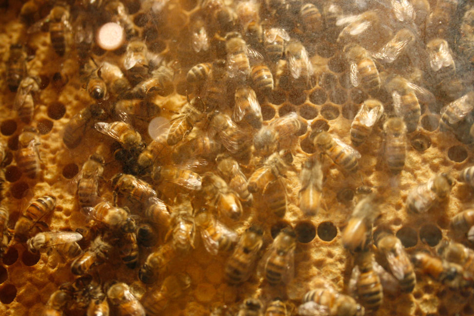 BEES! From the Montréal Insectarium. (next to the Jardins Botanique... next to the Olympic Stadium).